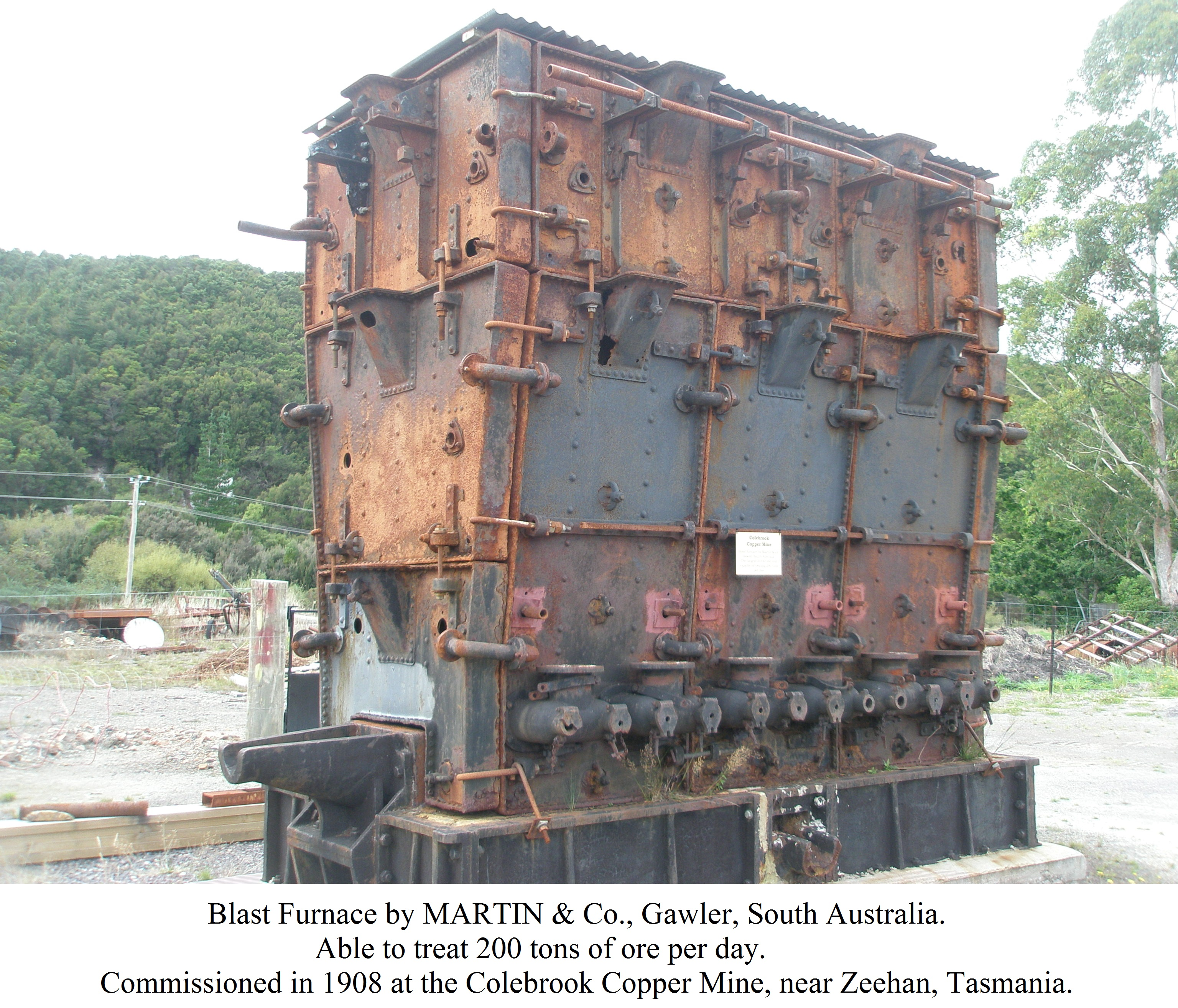 Martin & Co Blast Furnace.